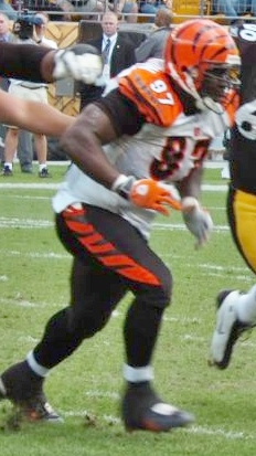 Scene from the Cincinnati Bengals/Pittsburgh Steelers game Sept. 24, 2006